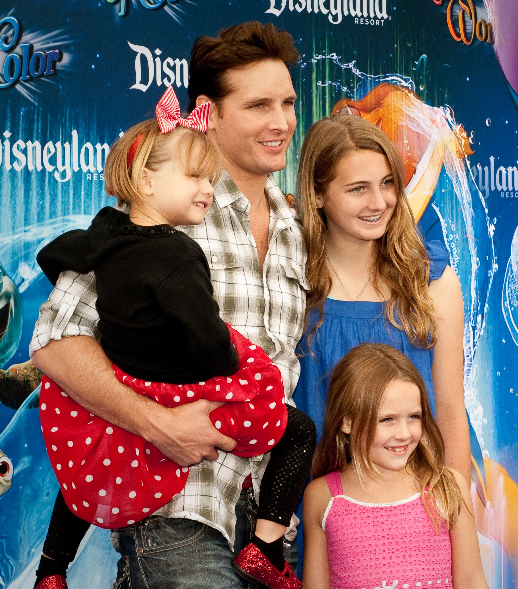 Peter Facinelli at the World of Color Premiere Disney California Adventure